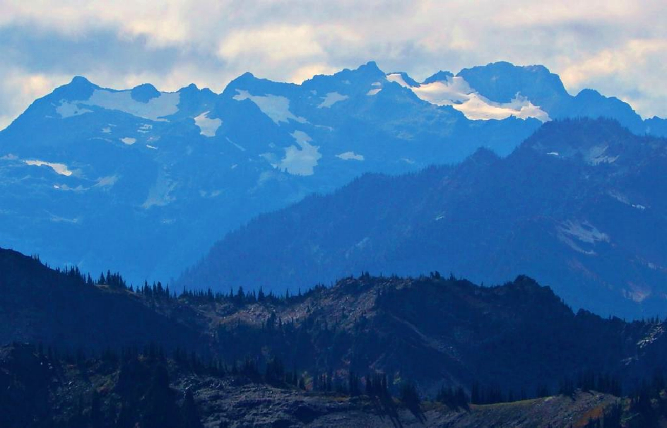 The Mount Christie massif in the distance, with the broad true summit to the right above the sunlit Christie Glacier. This view is from Obstruction Peak with a long lens and the camera is pointed roughly south (SSW). September 27, 2014.